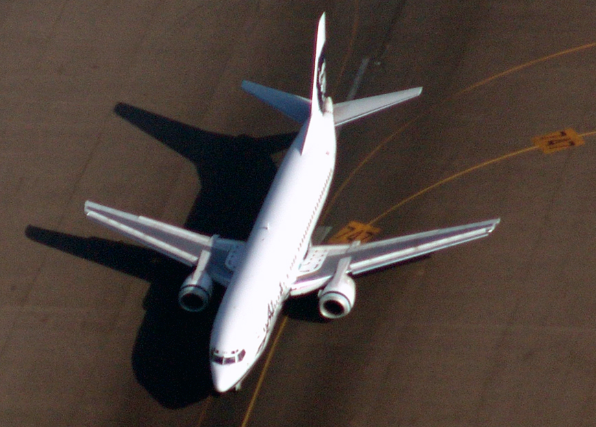 Alaska Airlines - Boeing 737 about to begin takeoff roll - Lindbergh Field, San Diego, California. (KSAN).